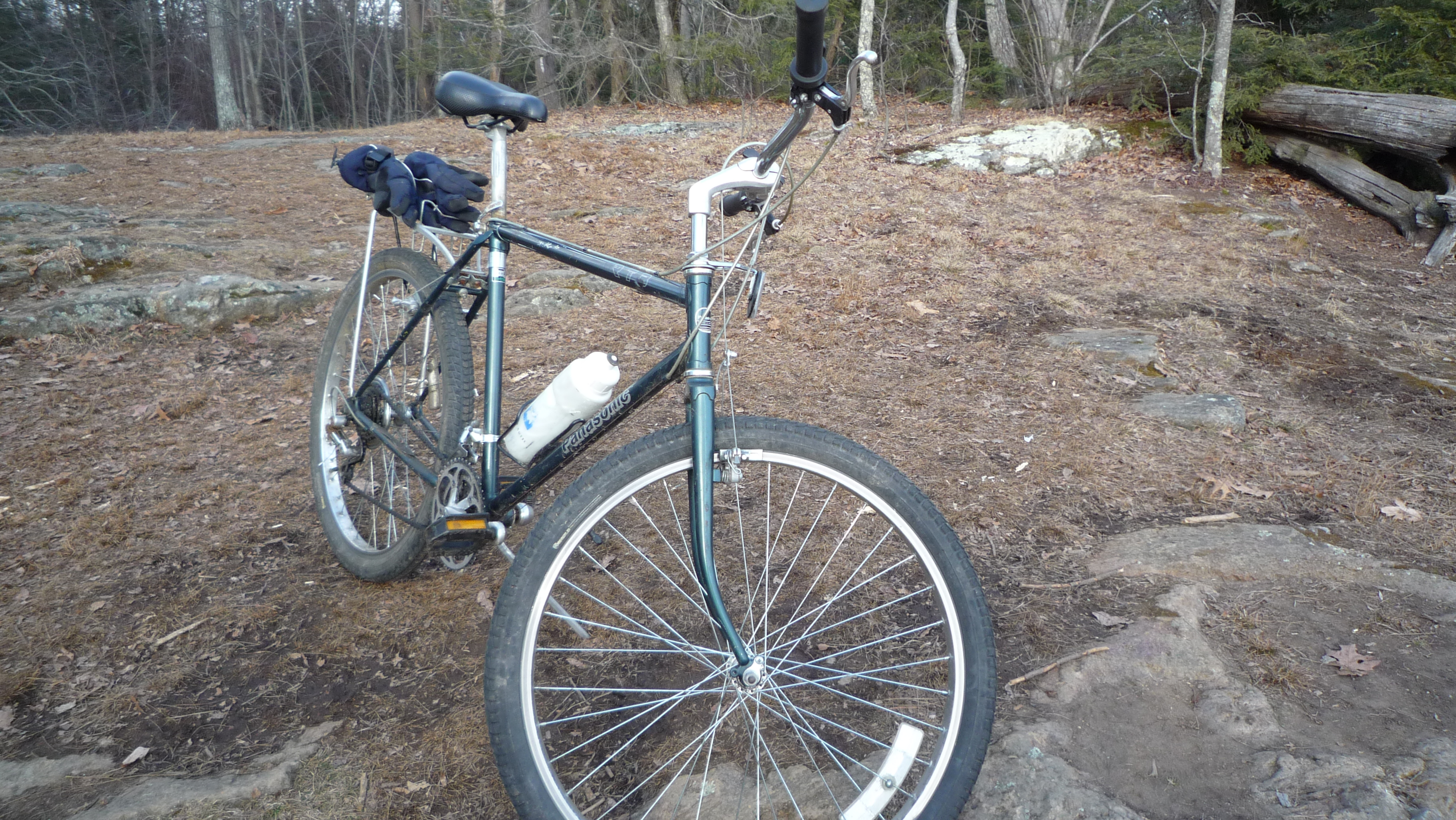 Panasonic Mountain Bike from the 1980s. The one seen in this picture is still being ridden today.